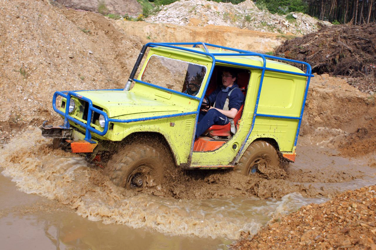 My Daihatsu Taft after a bit of off road preparation